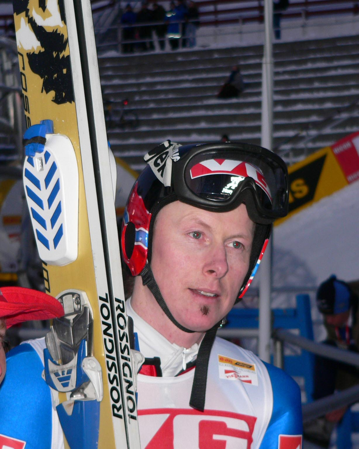 Tommy Ingebrigtsen (1977), Norwegian skier (cropped from File:Tommy Ingebrigtsen 2005.jpg)